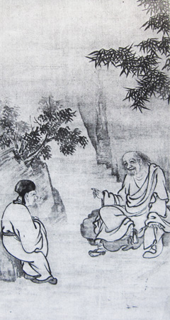 Painting of chan master Mazu Daoyi and Panyun by Muqi (1232)